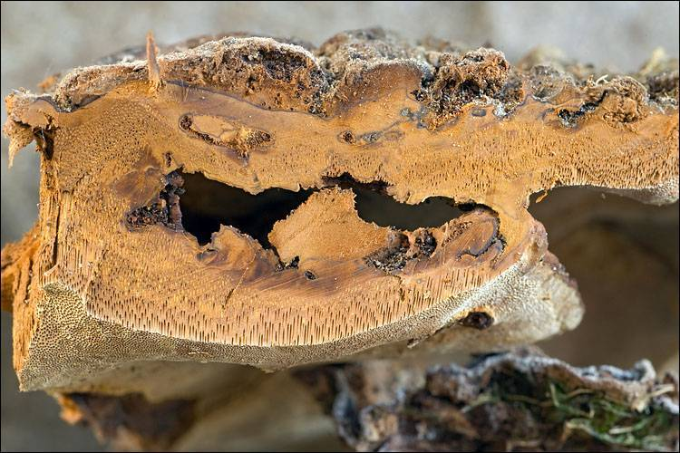 Phylloporia ribis (Schumach.) Ryvarden Image location: Bovec basin, East Julian Alps, Posočje, Slovenia Code: Bot_590/2012_DSC2418 Habitat: Light broad-leaf forest intermixed with unmaintained grassy meadows, flat terrain, old calcareous river deposits, partly shady, partly protected from direct rain by tree canopies, average precipitations ~ 3.000 mm/year, average temperature 8-10 deg C, elevation 365 m (1.200 feet), alpine phytogeographical region. Substratum: Euonymus europaea Place: Soča valley between Kobarid and Žaga, right Soča bank near Srpenica village, East Julian Alps, Posočje, Slovenia EC Comments: Growing solitary at the base of a middle size Euonymus europaea bush situated under a large Fagus sylvatica, alive but not in a good health condition. Pileus diameter up to 15 cm x 10 cm (6 inch x 4 inch) and 3 cm (1.2 inch) thick, hard, difficult to cut through, corky. Caps’ upper side dark tobacco color (oac638), almost totally covered by mosses. Context somewhat lighter than cap (oac644). Pore layer concolorous with context, pore surface ocher-brown (oac777). SP whitish-creme. Spores smooth, small, abundant. Dimensions 3.4 (SD = 0.2) x 2.7 (SD = 0.2) micr., Q = 1.27 (SD = 0.09), n = 30. Motic B2-211A, magnification 1.000 x, oil, in water. Ref.: (1) A.Bernicchia, Polyporaceae s.l., Fungi Europaei, Vol. 10., Edizioni Candusso (2005), p 440. (2) G.J.Krieglsteiner (Hrsg.), Die Grosspilze Bade-Württembergs, Band 1, Ulmer (2000), p 462. (3) Ryvarden, L.; Gilbertson, R.L. 1994, Syn. Fung. 7. p535 (after MycoBank) (4) Personal communication with Mr. Anton Poler. Identification confirmed. Nikon D700 / Nikkor Micro 105mm/f2.8 and Canon G11, 6.1-30mm/f2.8-4.5 Recognized by sight For more information about this, see the observation page at Mushroom Observer.